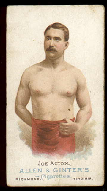 Joe Acton